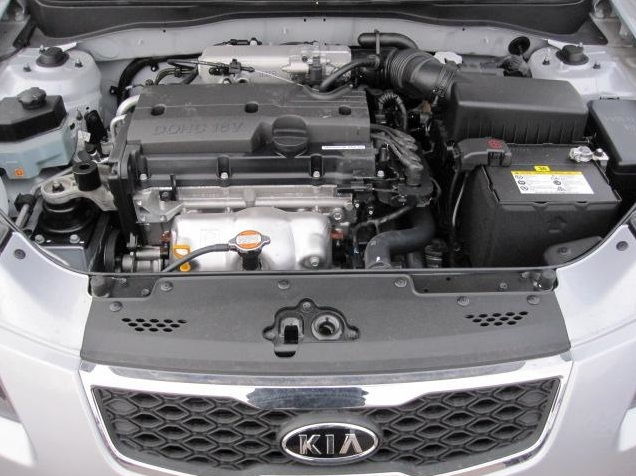 The view of engine. It's 1.4 DOHC 16V